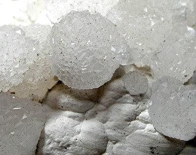 Pinnoite Locality: Inder B deposit and salt dome, Atyrau (Gur'yev), Atyrau Oblysy (Atyrau Oblast'), Kazakhstan (Locality at ) Size: 8 x 6 x 4 cm. A very rich and beautiful specimen of this rare species from the famous borate deposits at Lake Inder. Glistening, translucent aggregates to just under 1 cm abound on this 3-dimensional matrix. Ex. Martin Zinn Collection.